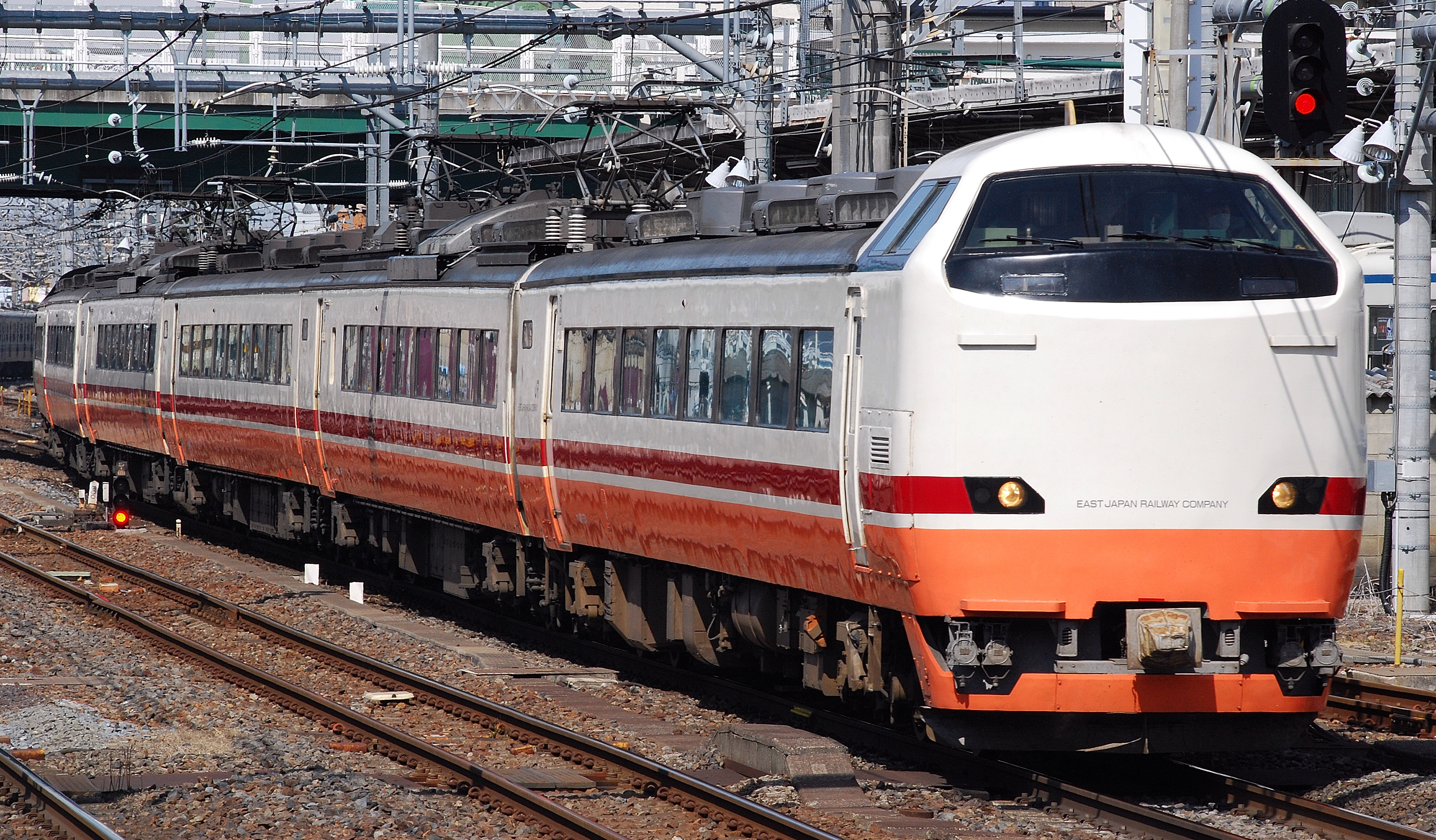 JR East 485 series EMU set G58 approaching Omiya station on a "Nikko" service